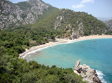 Adrasan Kıyıları